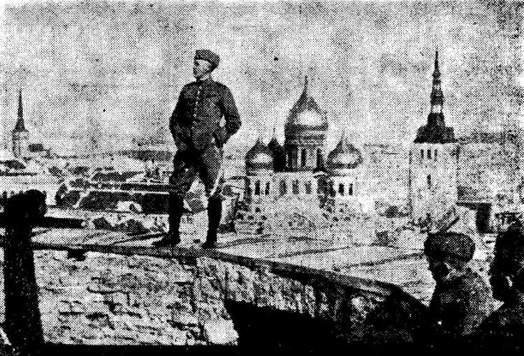 Danish voluteers on the walls of Tallinn's old town.